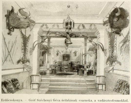 Hall of a mansion (Erdőcsokonya)